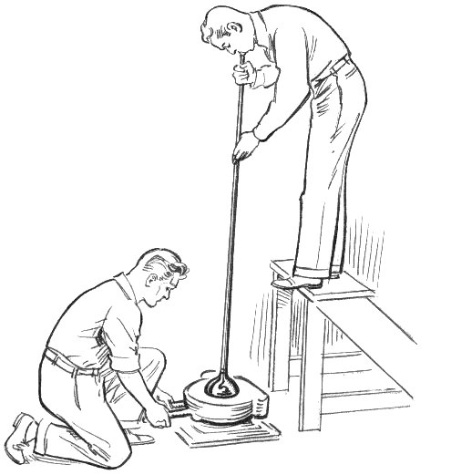 Glass blowing. line art drawing